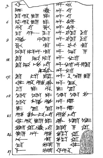 Pinches' line art for the obverse of tablet BM 93005, the Kassite to Akkadian vocabulary.